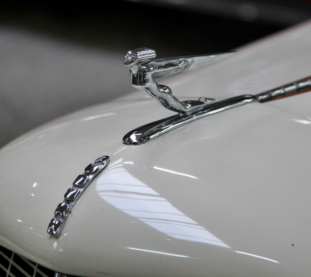 852 speedster hood ornament